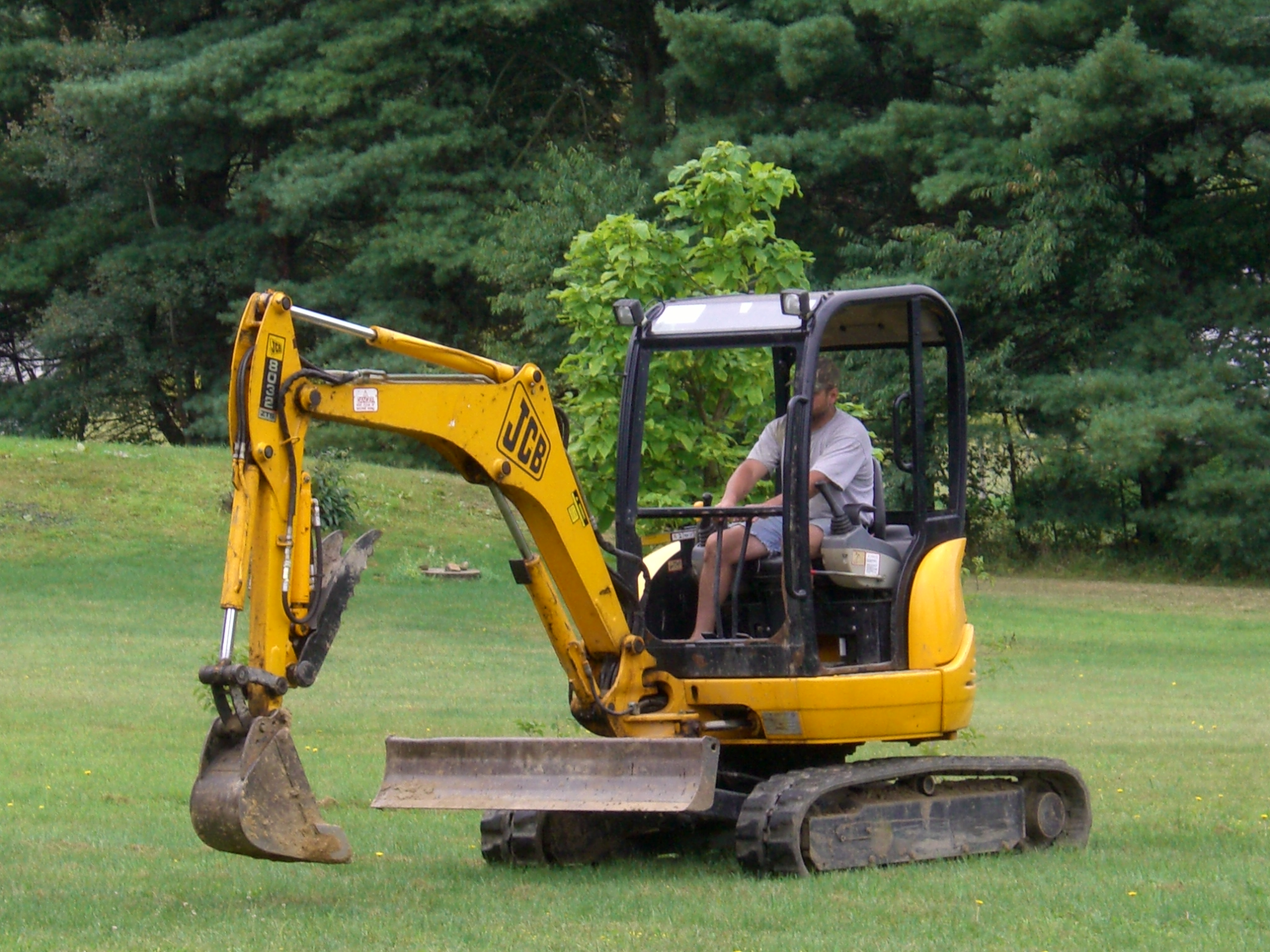 JCB excavator.